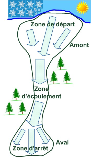 Avalanche site : descriptive scheme in 3 zones